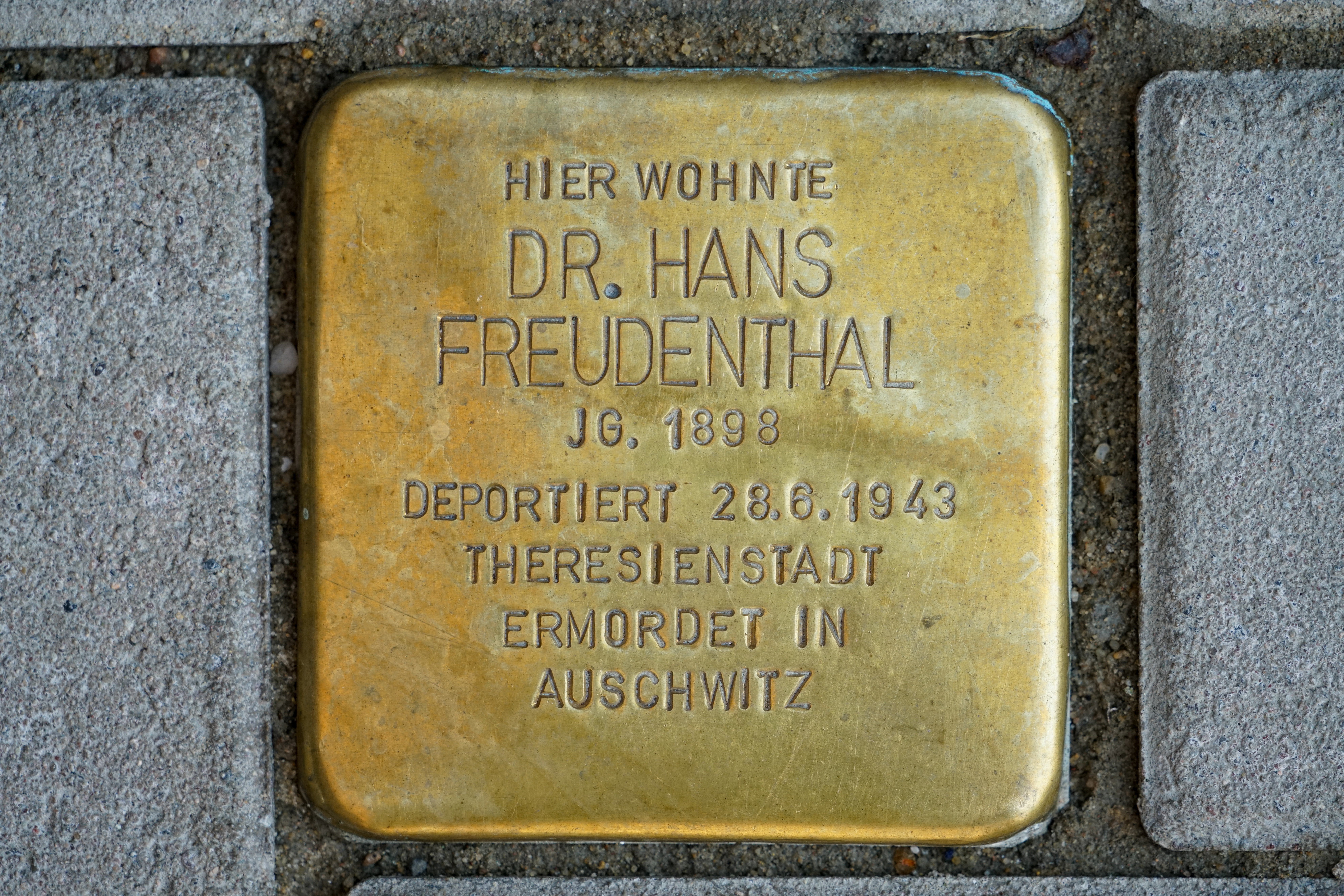 Stolperstein dedicated to Hans Freudenthal (Q66322388)